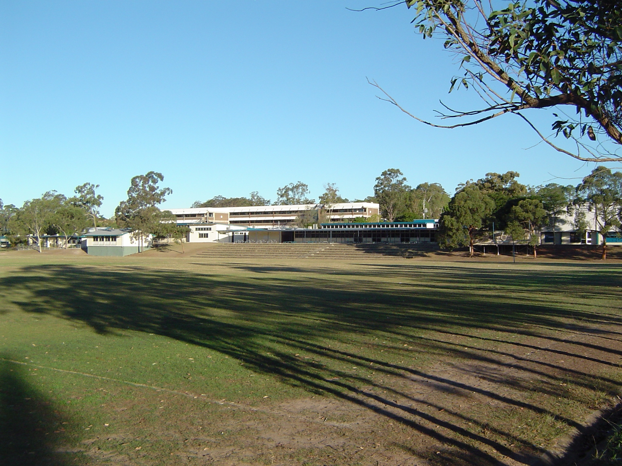 Photo of oval and buildings at Mansfield State High School, Mansfield, Brisbane, Queensland, Australia.